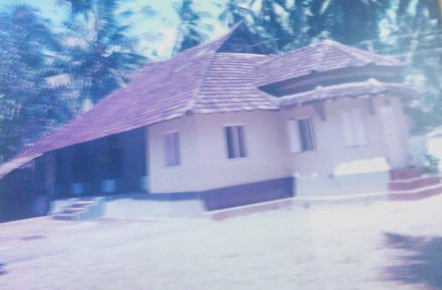 The main Banglow of Vanchiyoor Athiyara Madhom